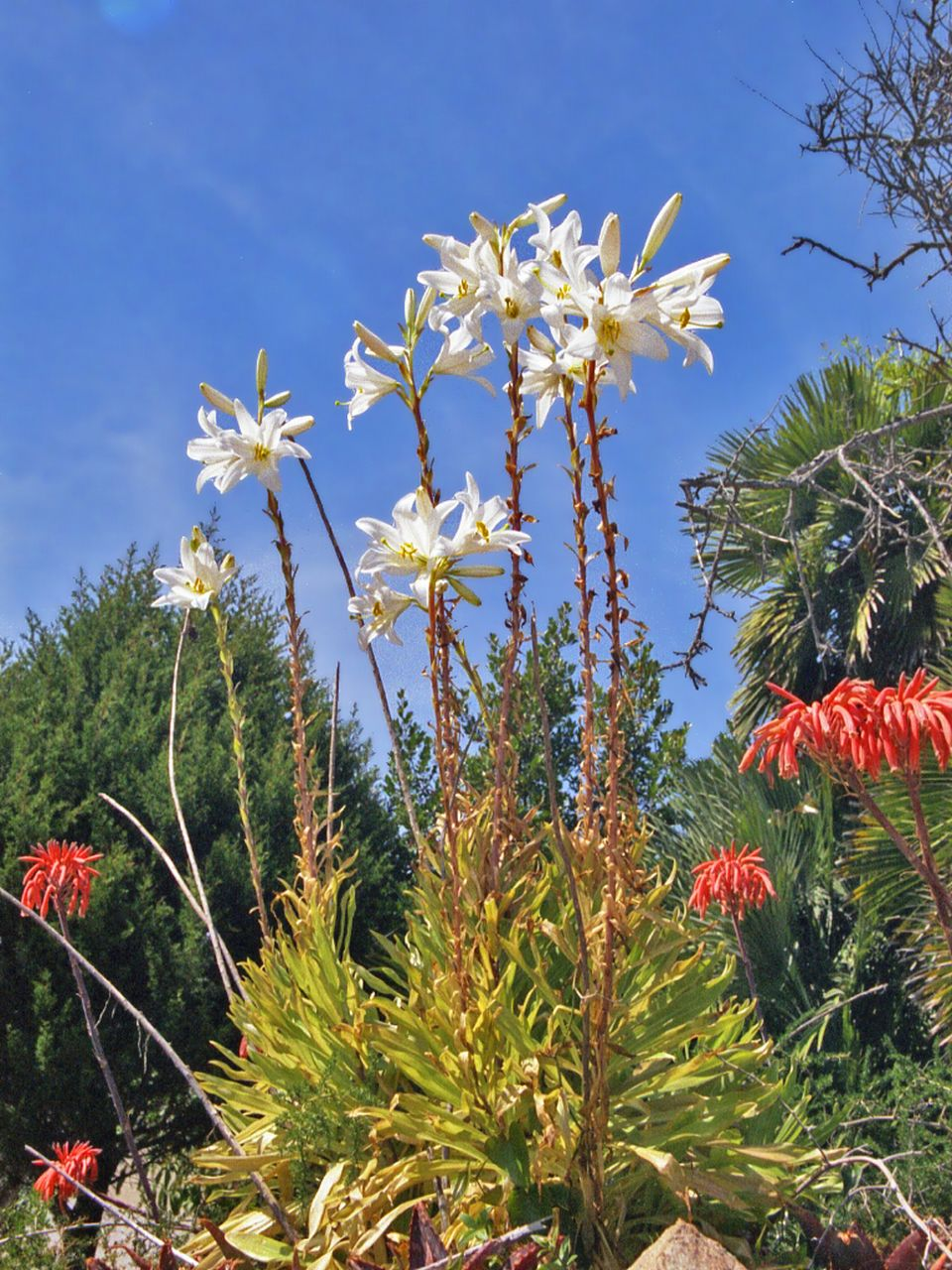 Lilium candidum - Sardinia